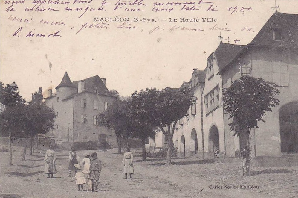 The rue de Bela in the Haute-Ville (=upper town) in Mauléon-Licharre, (Pyrénées-Atlantiques, France). In the background, the manoir de Bela.